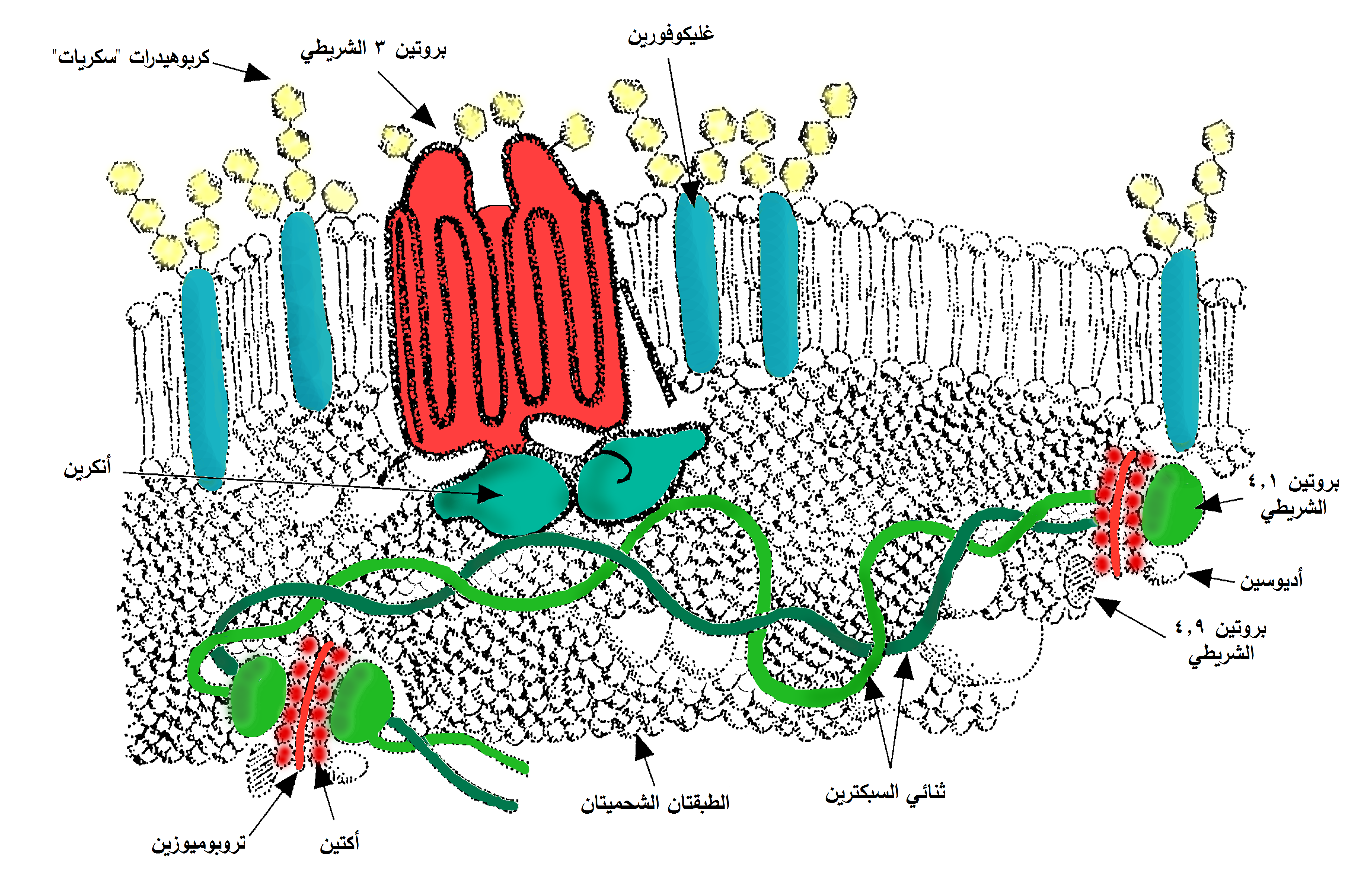 Major proteins in the erythrocyte (red blood cell) membrane.